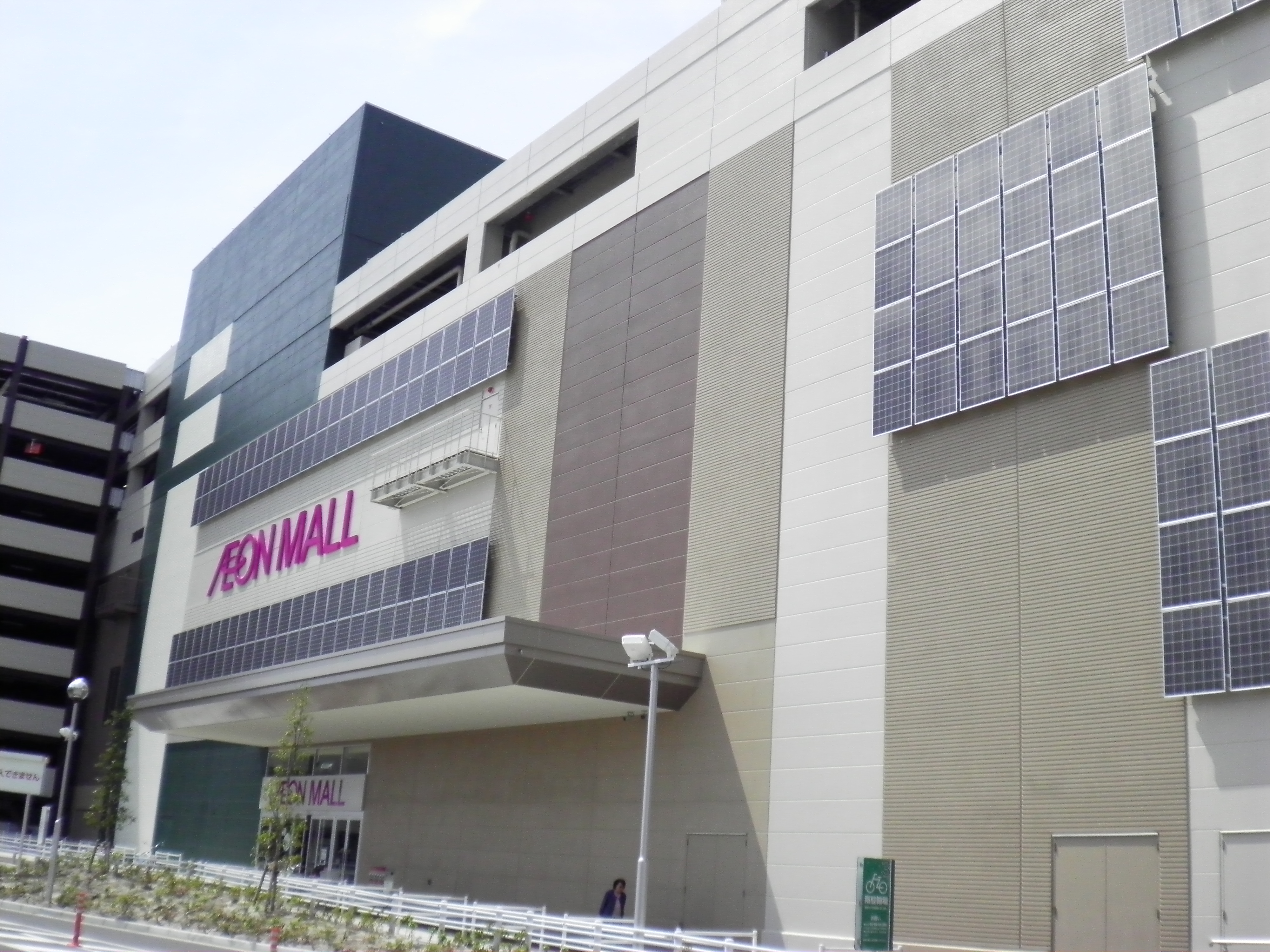 aeon_mall_aratamabashi_02